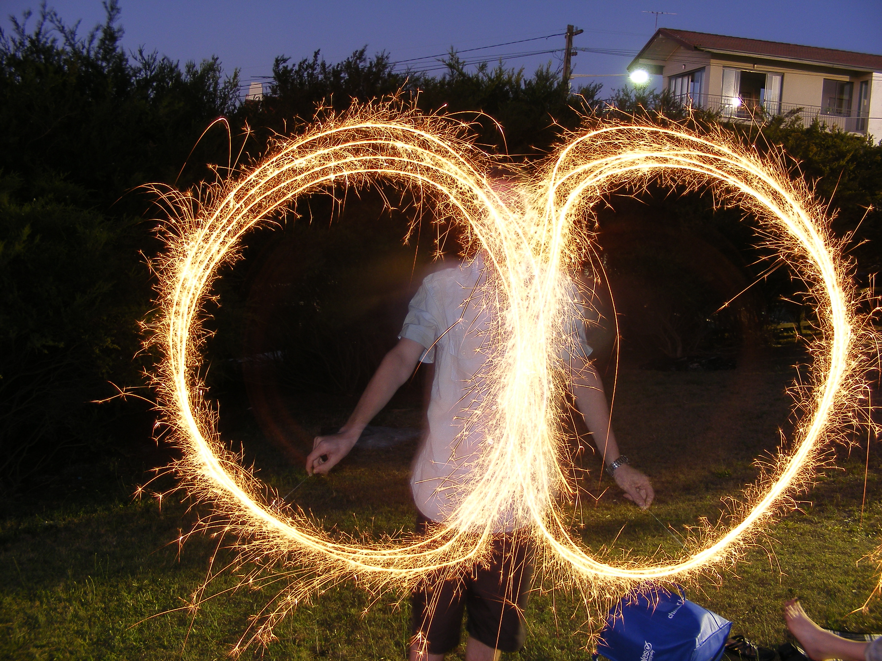 Sparklers with a slow shutter speed of 4 seconds. Taken new years eve 2008 in a public park in Dover Heights, New South Wales. I got my young cousin to stand as still as possible whilst rotating both sparklers in a circular motion